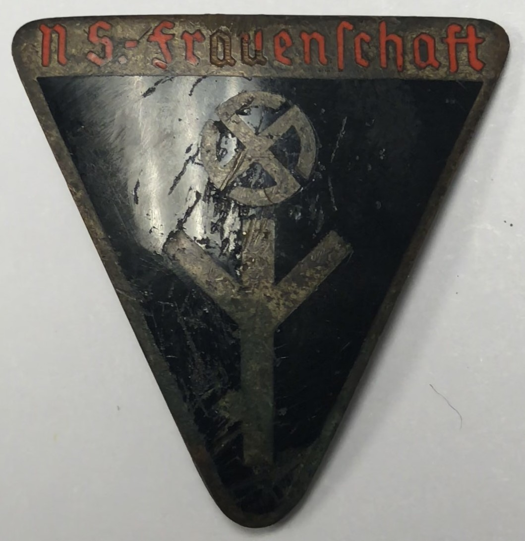 lapel pin from the NS Frauenschaft